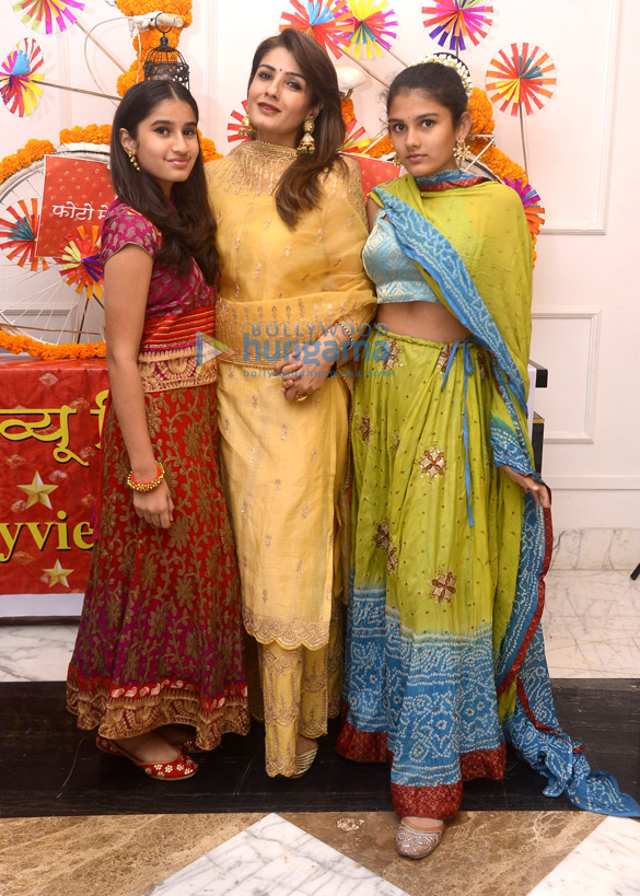 Raveena Tandon snapped with her daughters for Dussehra celebration in 2018